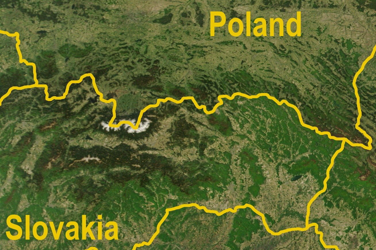 A satellite map of the Poland-Slovakia border.